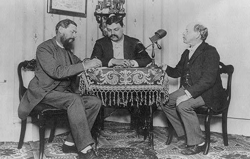 Alger (right), his brother in law, and a friend in 1889